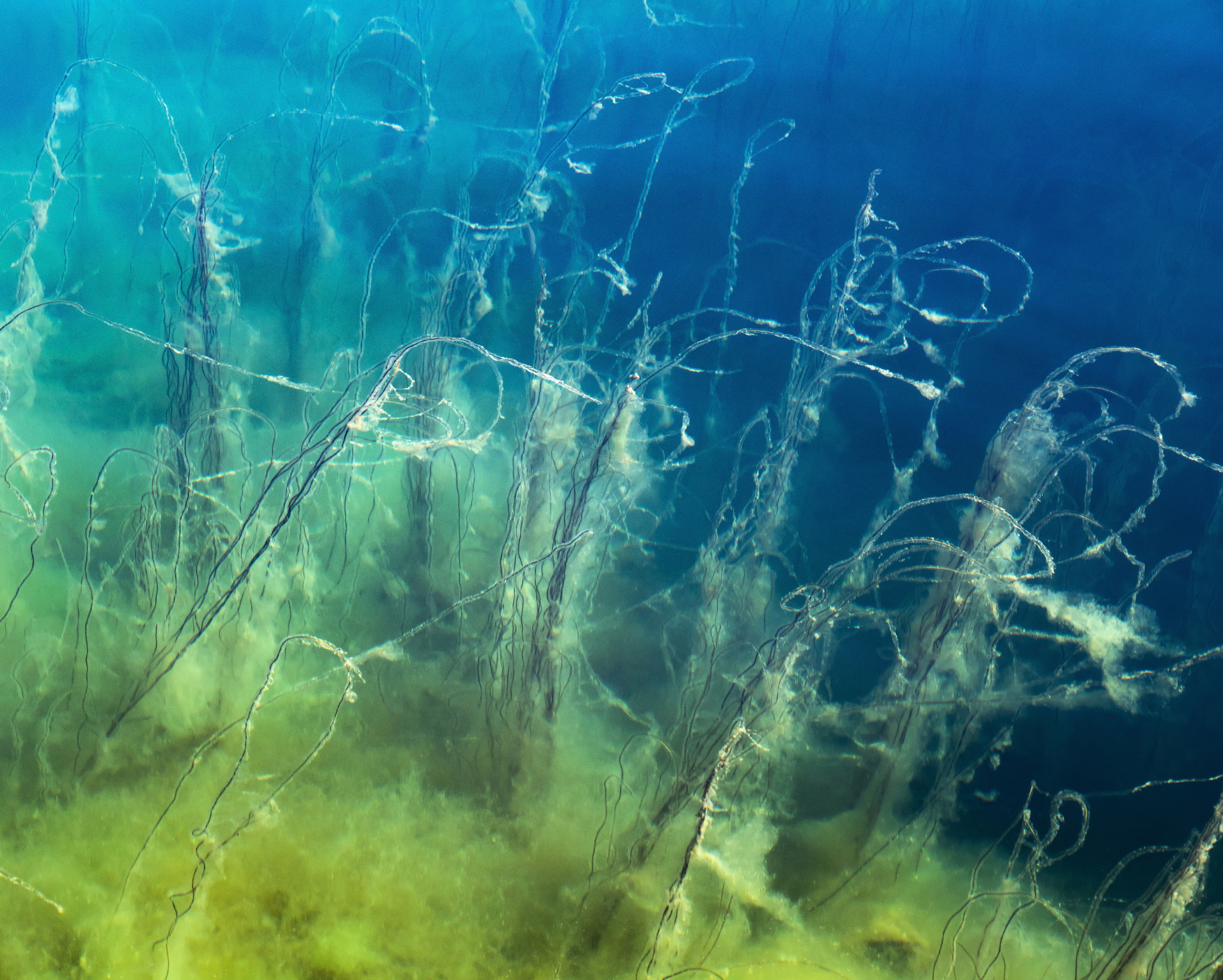 Underwater slope in Gullmarn fjord at Sämstad, Lysekil Municipality, Sweden. The long hairy strands of Dead Man's Rope (Chorda filum) are about 1 m (3.3 ft) high and the bottom is covered with soft blanked weed (Cladophora glomerata). Photo taken from a jetty on a clear sunny day with the blue sky reflecting on the water surface, giving the scene a blue tint. The aspect ratio on the photo is corrected vertically for the refraction of light. The photo was taken from this jetty.